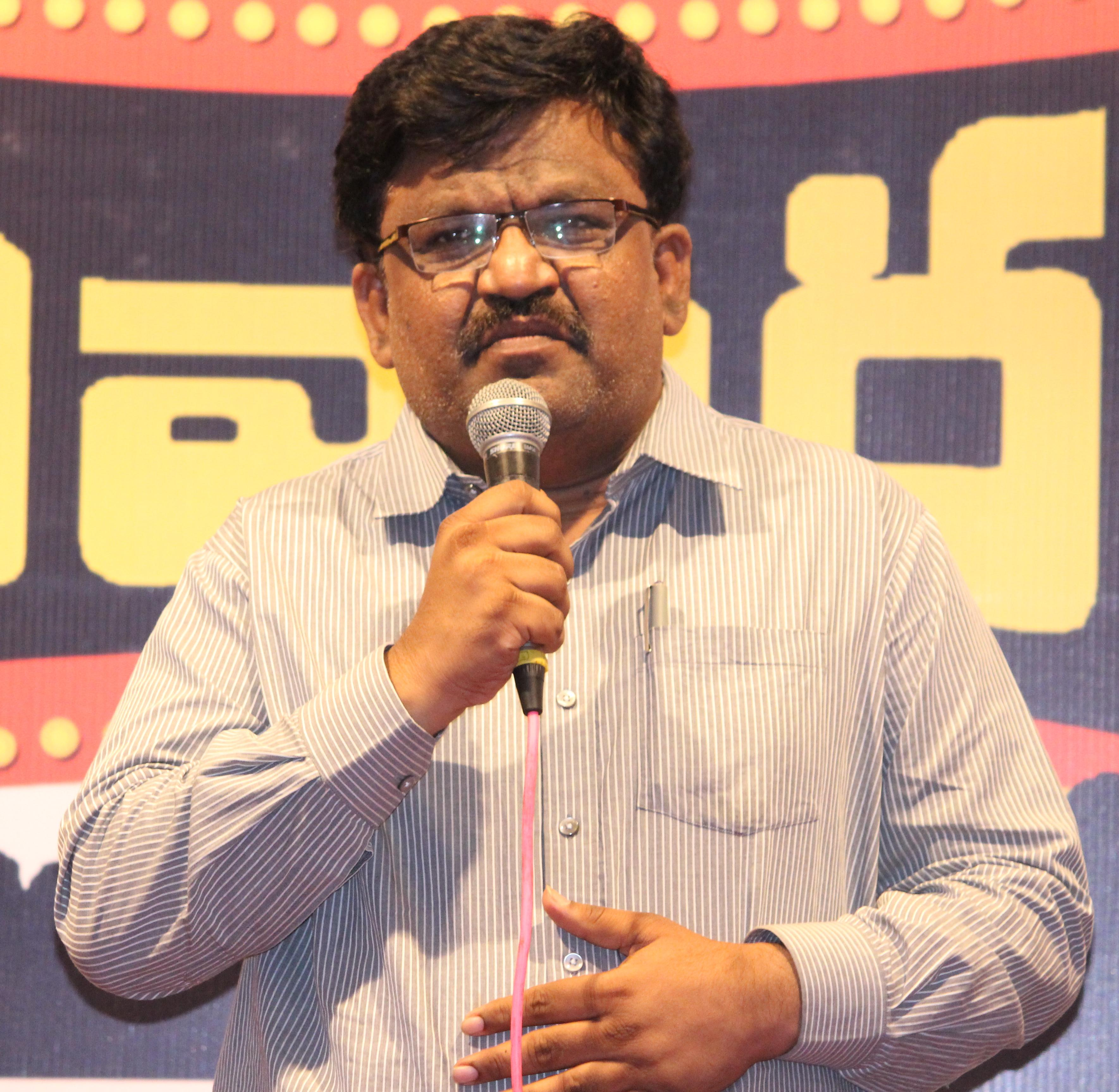 Deshapati Srinivas in Cinivaram, Ravindra Bharathi, Hyderabad